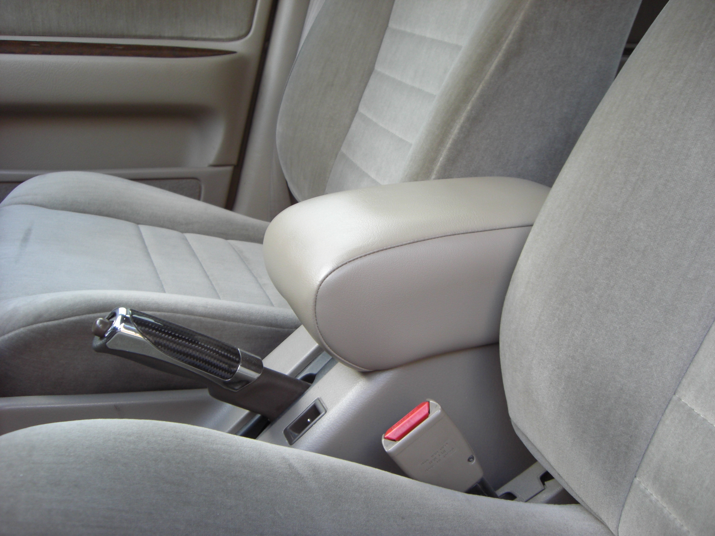 1994 Optional Leather Armrest